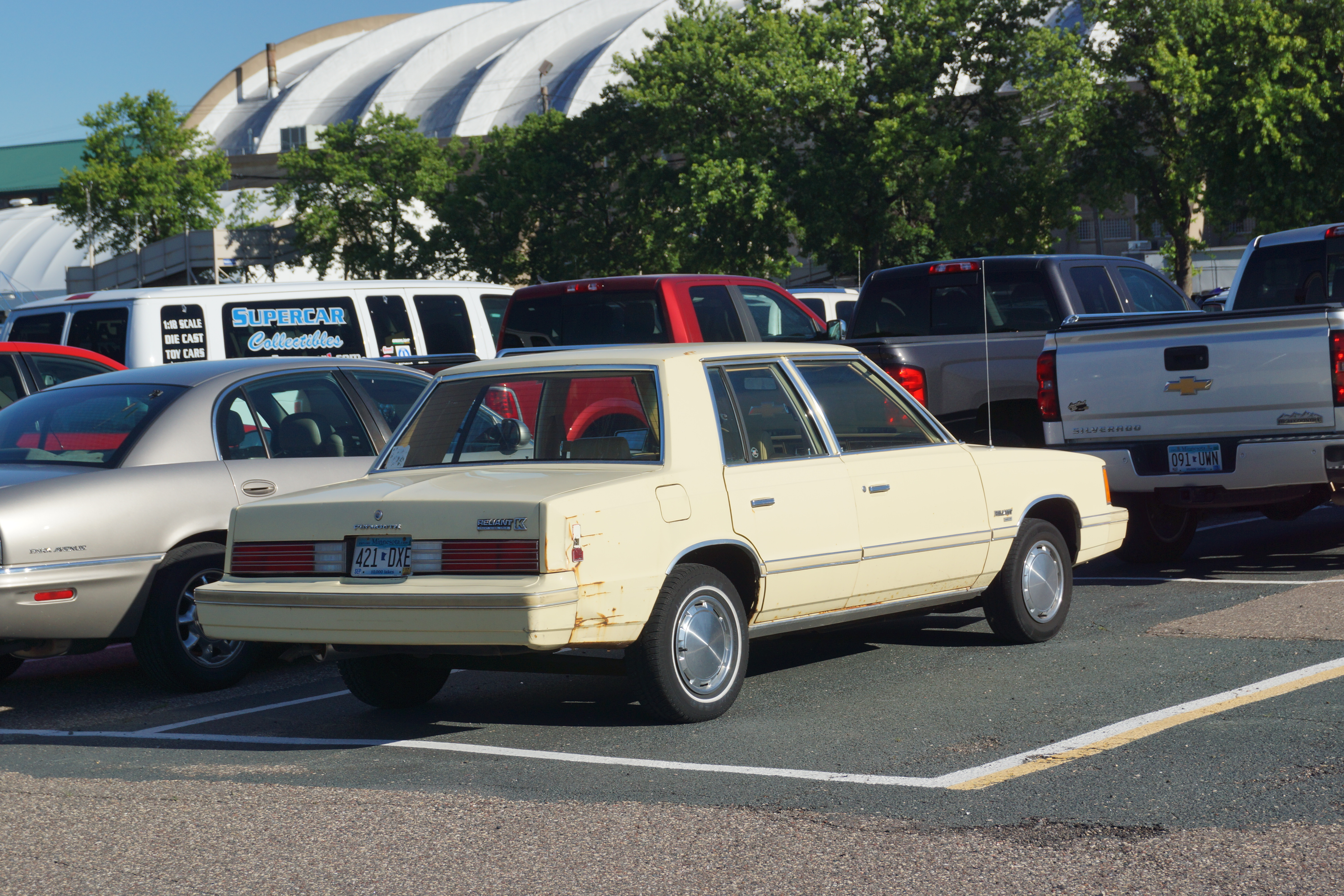 I walked past this Plymouth Reliant on my way to the gate. I do not see them very often, so I snapped a couple pictures. Those few shots filled up my memory card. I had a new one with, but I was glad it happened right away. Over Friday, Saturday & Sunday I filled up another 32 GB card and started a new one on Sunday. It will take a while to get them all loaded and even longer to get them labeled, so stay tuned. Minnesota Street Rod Association (MSRA) “BACK TO THE 50′s” 44th Annual Car Show June 23-25, 2017 State Fairgrounds St. Paul Minnesota Click here for previous "Back to the '50s" pictures.. Click here for more car pictures at my Flickr site. Or here for my Car Crazy Tumblr site. Or on Twitter @DVS1mn.